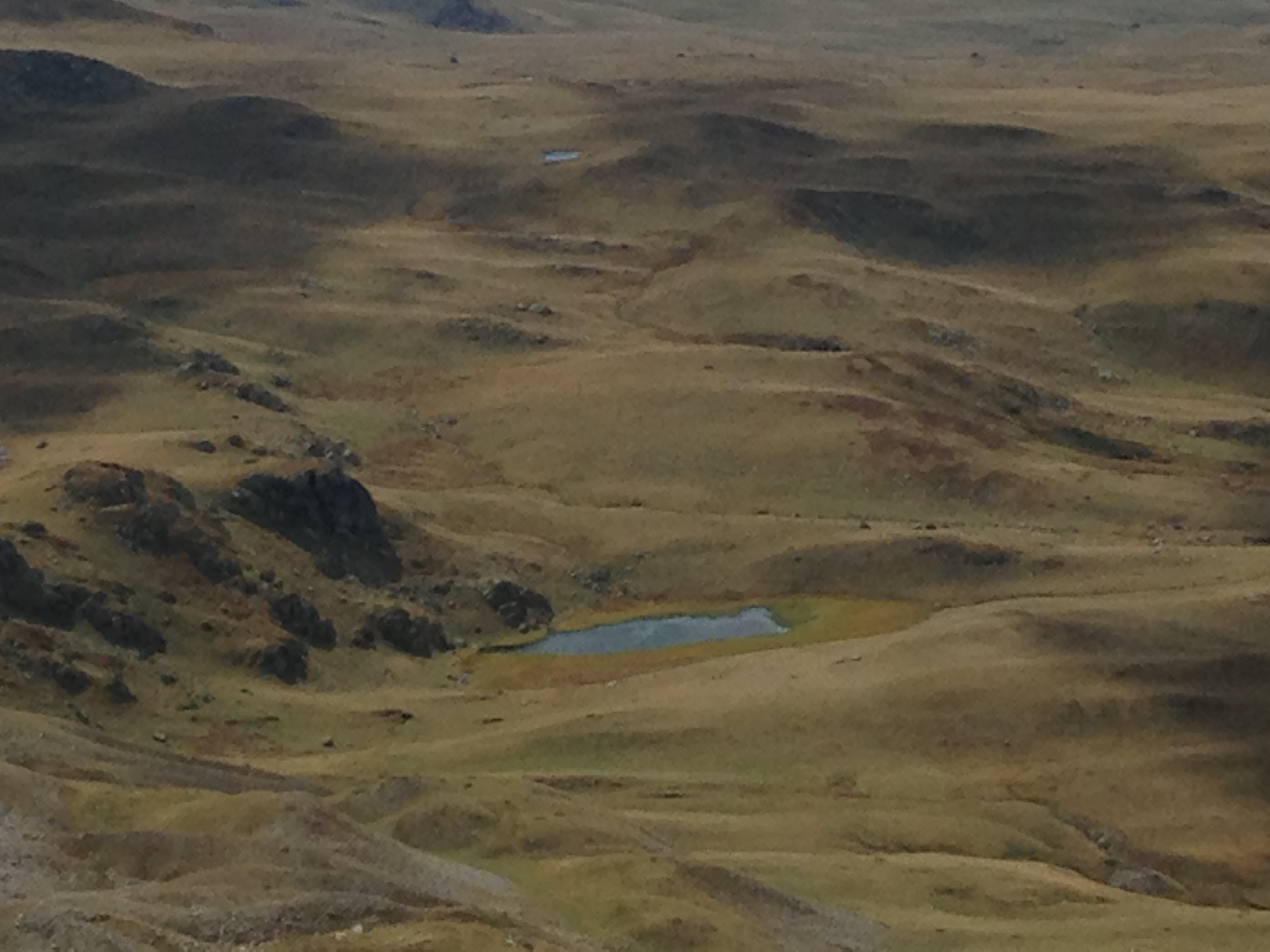 Upper Defsko Lake on Shar Mountain